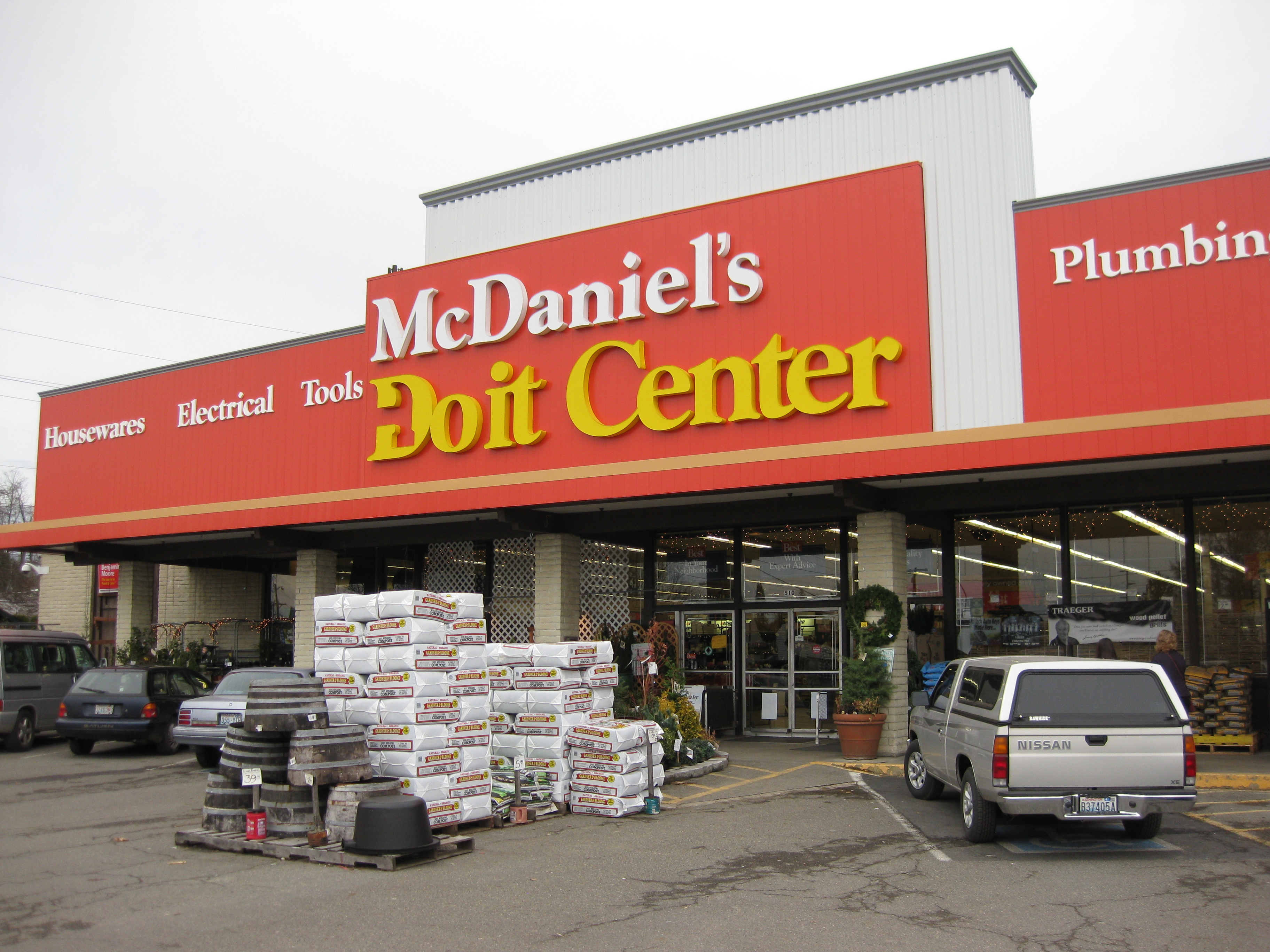 Exterior photograph of McDaniel's Do it Center, a Do it Best Corp. member in Snohomish, WA.